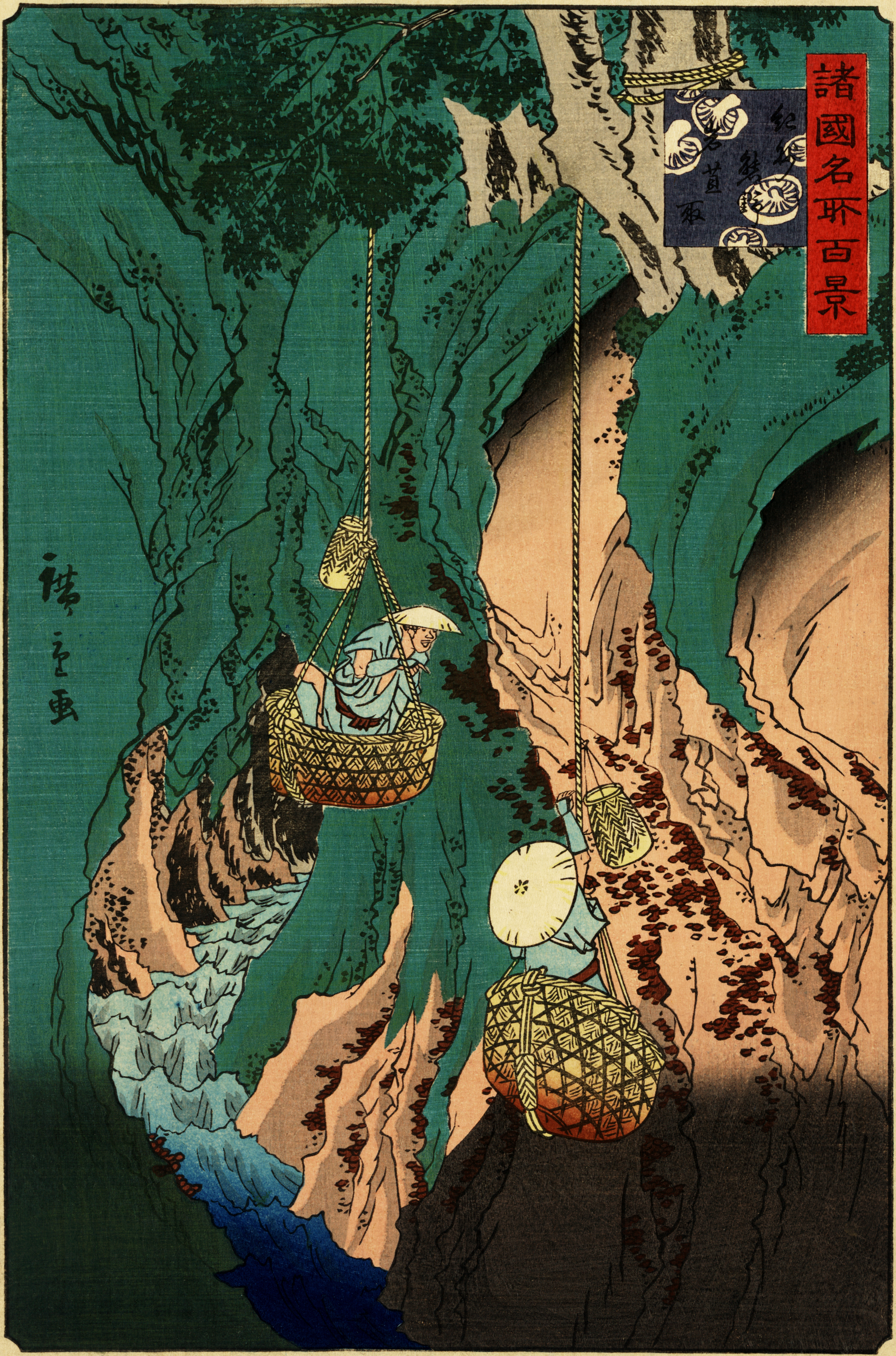 Kishū kumano iwatake tori (Iwatake mushroom gathering at Kumano in Kishu) from Hiroshige II's Shokoku meisho hyakkei ("100 famous views of Japan" or "100 famous views of the provinces").